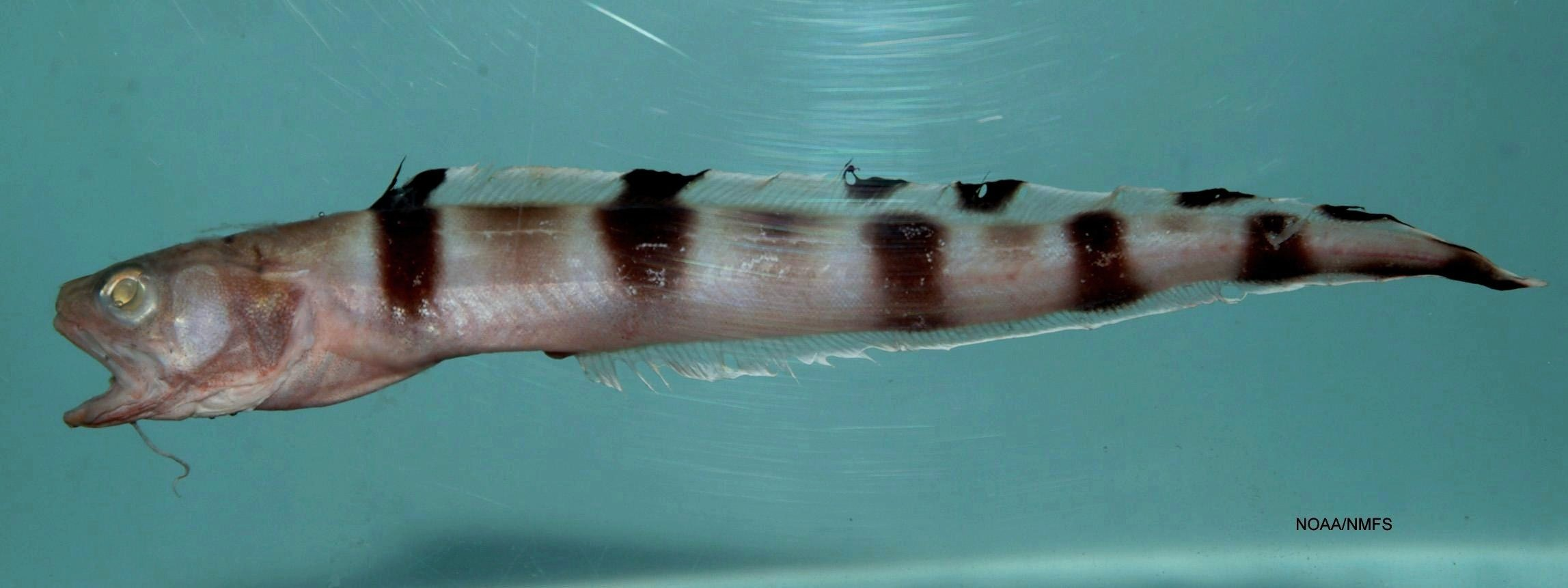 Barred cusk-eel ( Lepophidium staurophor ). Gulf of Mexico.